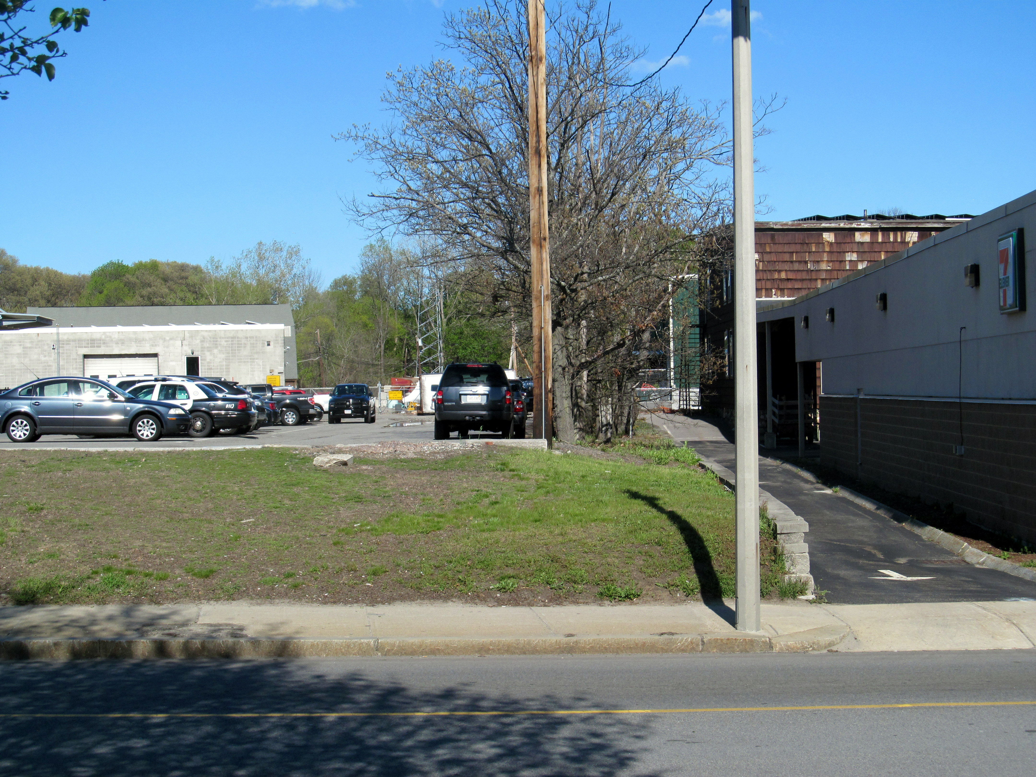 Former site of Waltham North station in May 2016